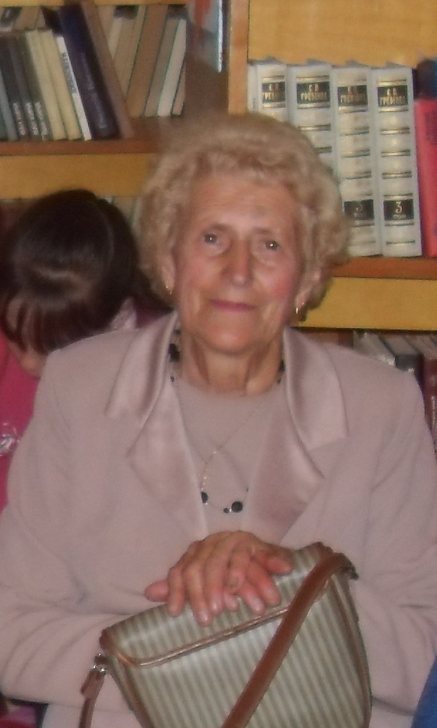 Корсунюк Надія Антонівна